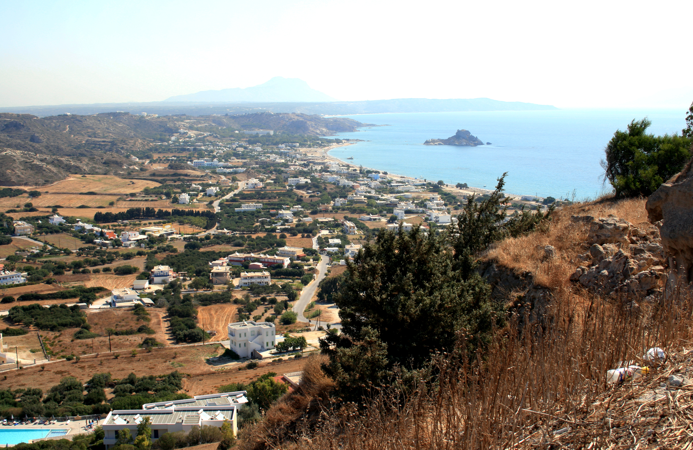 View on beach near town Kefalos on Kos island (Greece)